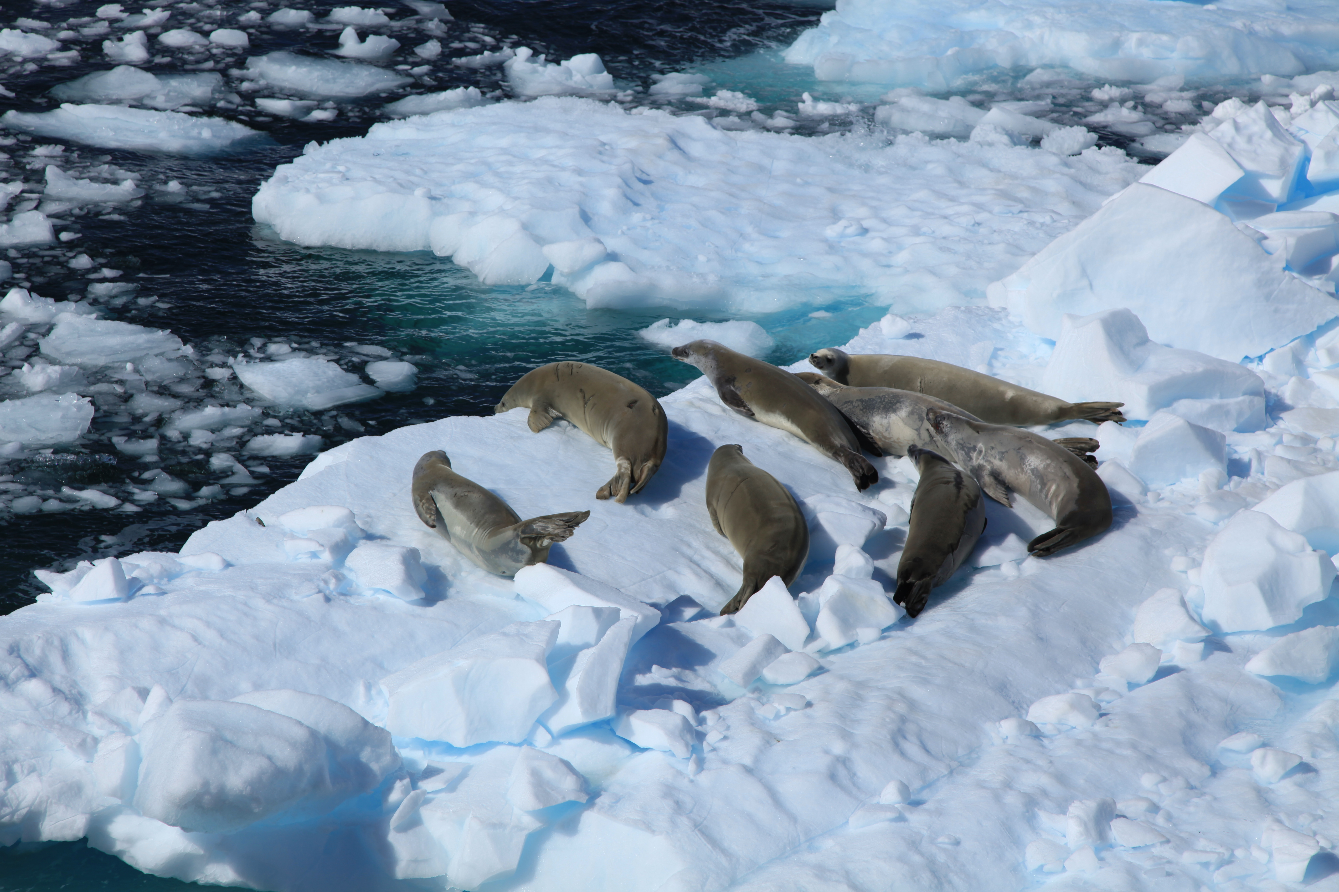 Crabeater Seals in the Lemaire Channel, Antarctica